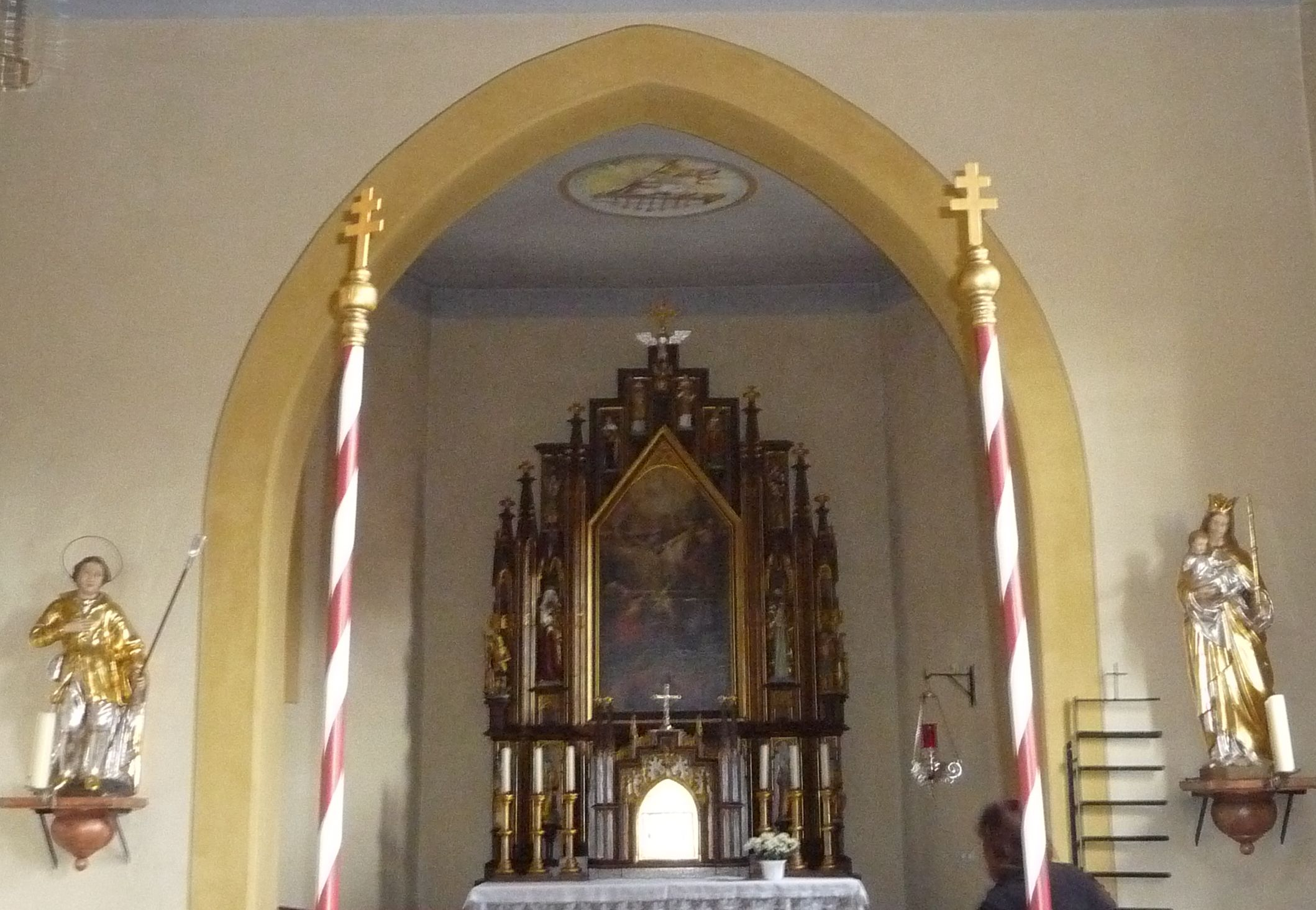 Tiefenhöchstadt